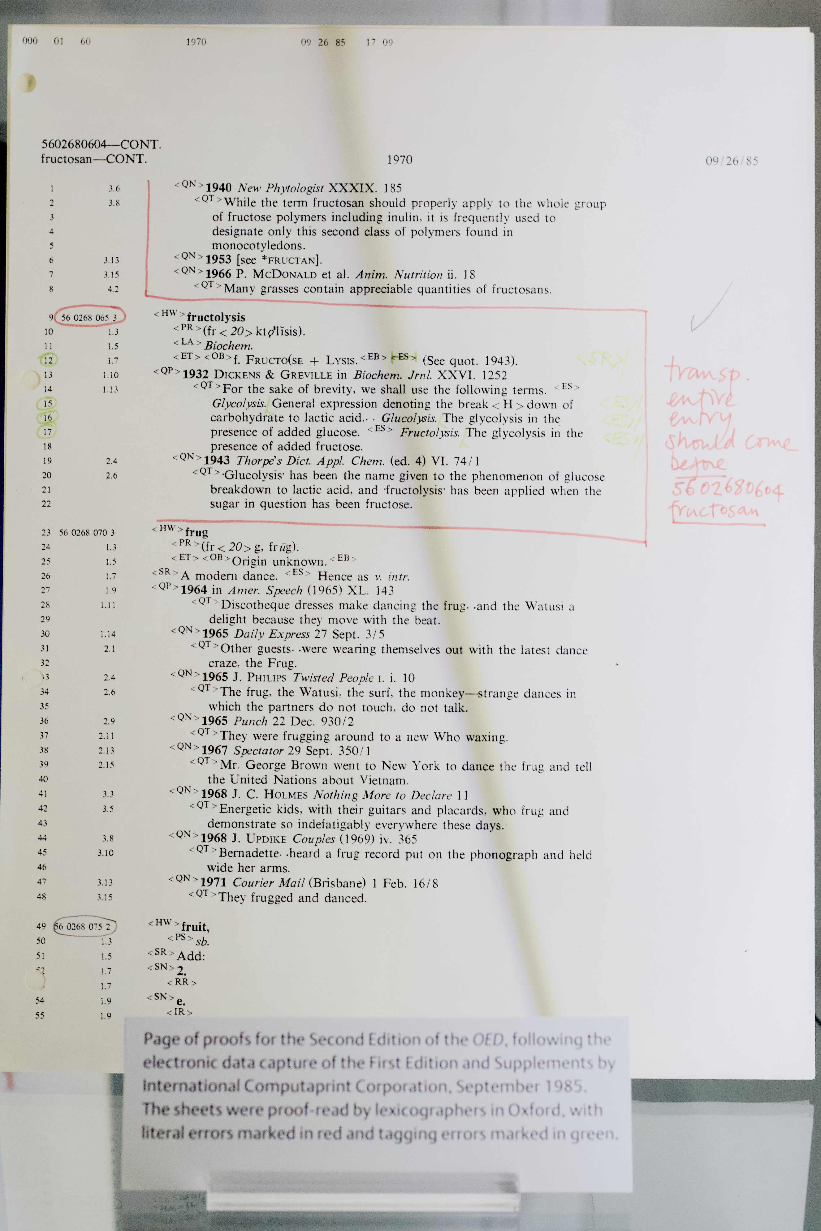 A printout of the SGML markup used in the computerization of the Oxford English Dictionary, showing pencil markings used to mark corrections, at the OUP Museum in Oxford